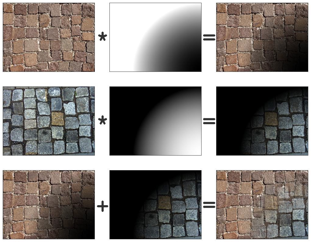 Exampe of the texture splatting technique in computer graphics. The images used are Image:-_Pavement_01_-.jpg and Image:Cobblestones.JPG.